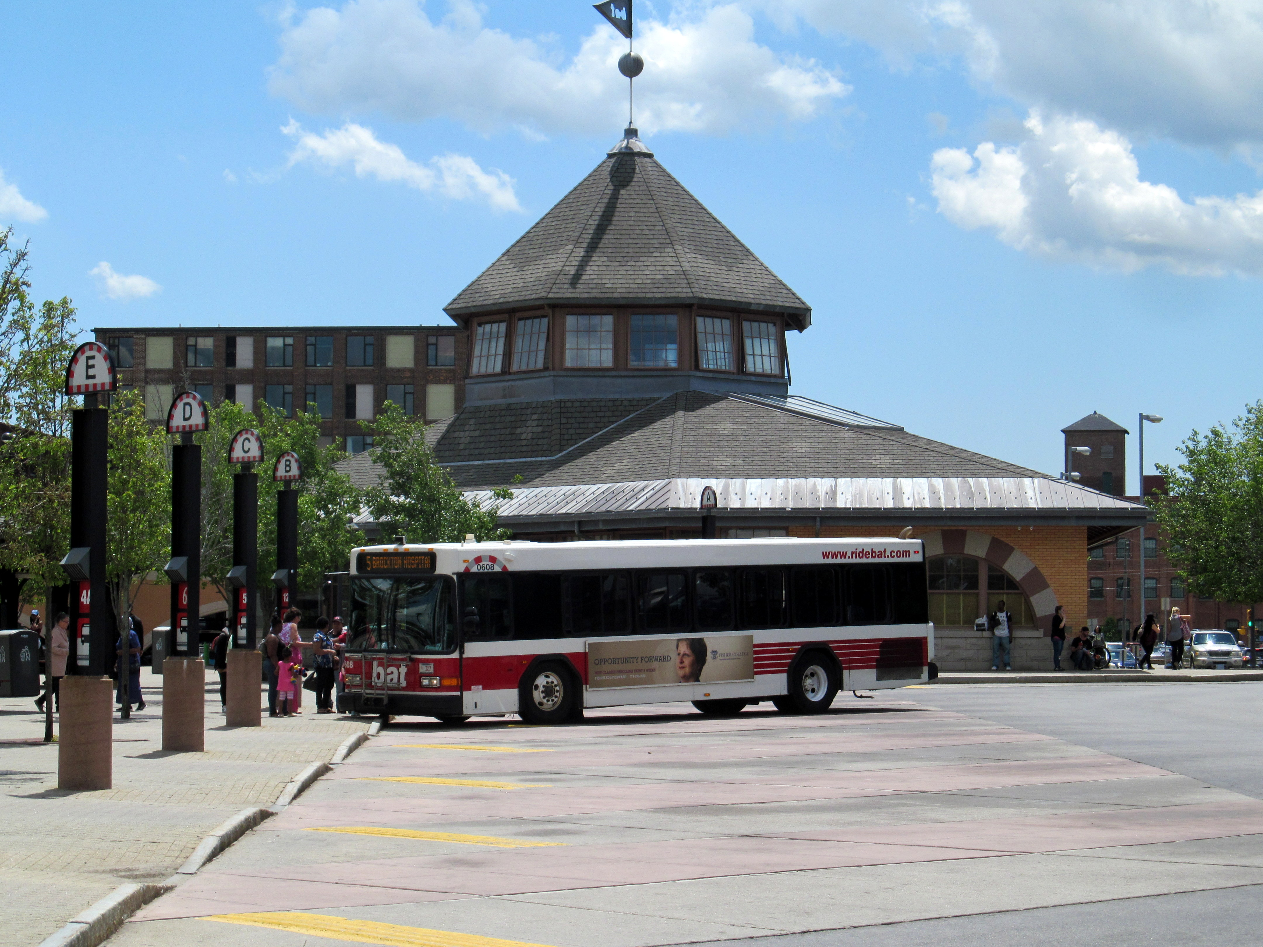 A route 5 bus at BAT Centre in June 2017